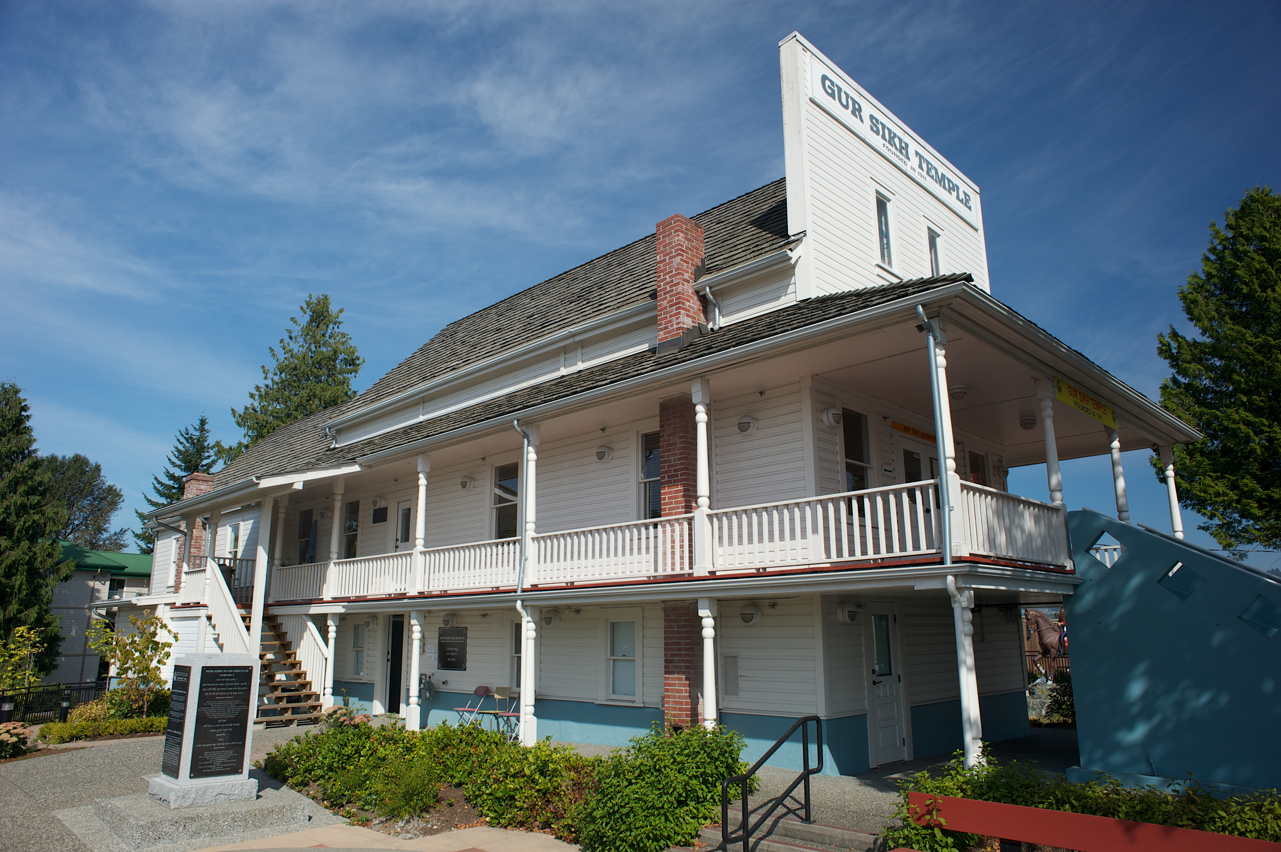 South West exterior elevation of Gur Sikh Temple